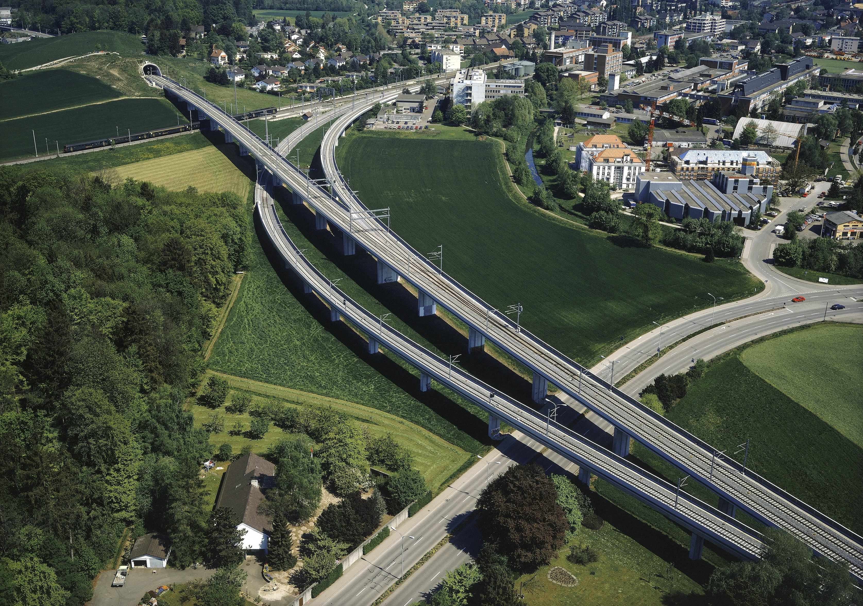 Aerial view of Neugut viaduct in Dübendorf.